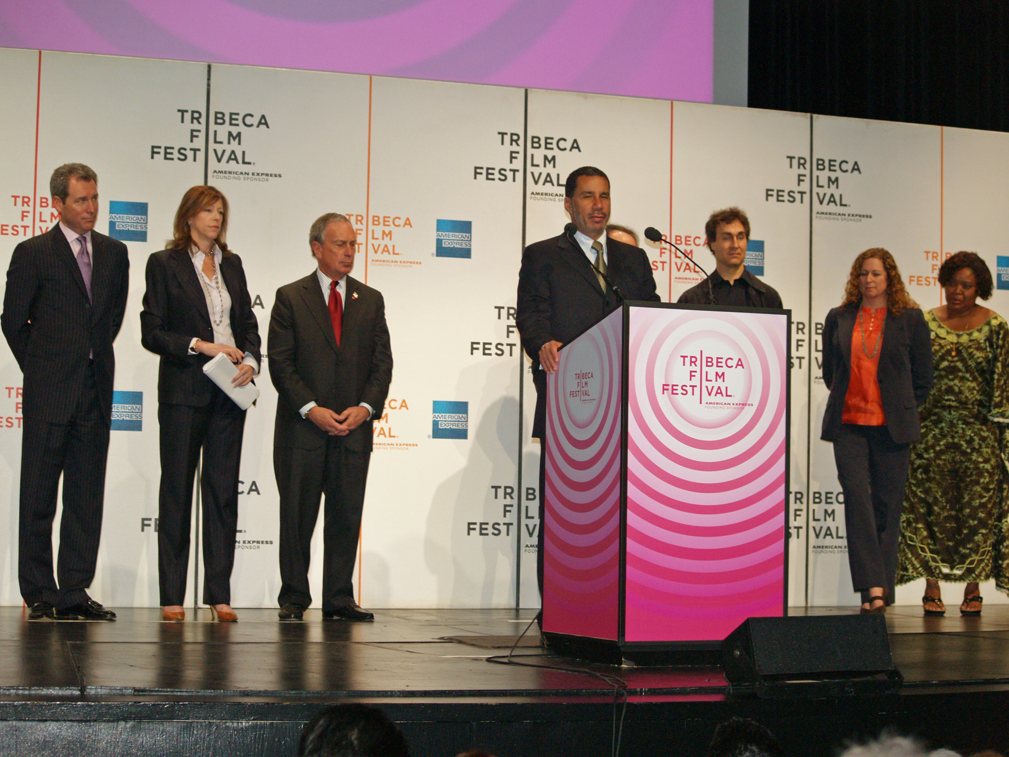 New York State Governor David Paterson opens the 2008 Tribeca Film Festival.